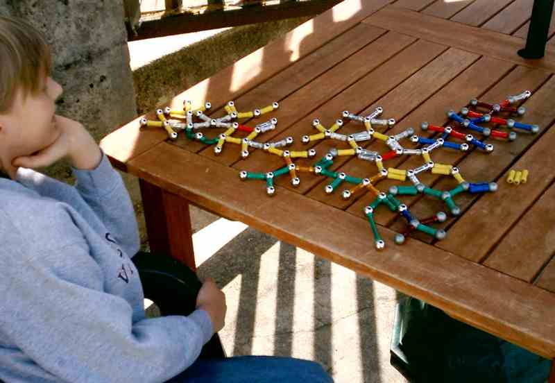 a boy looking at a molecule model